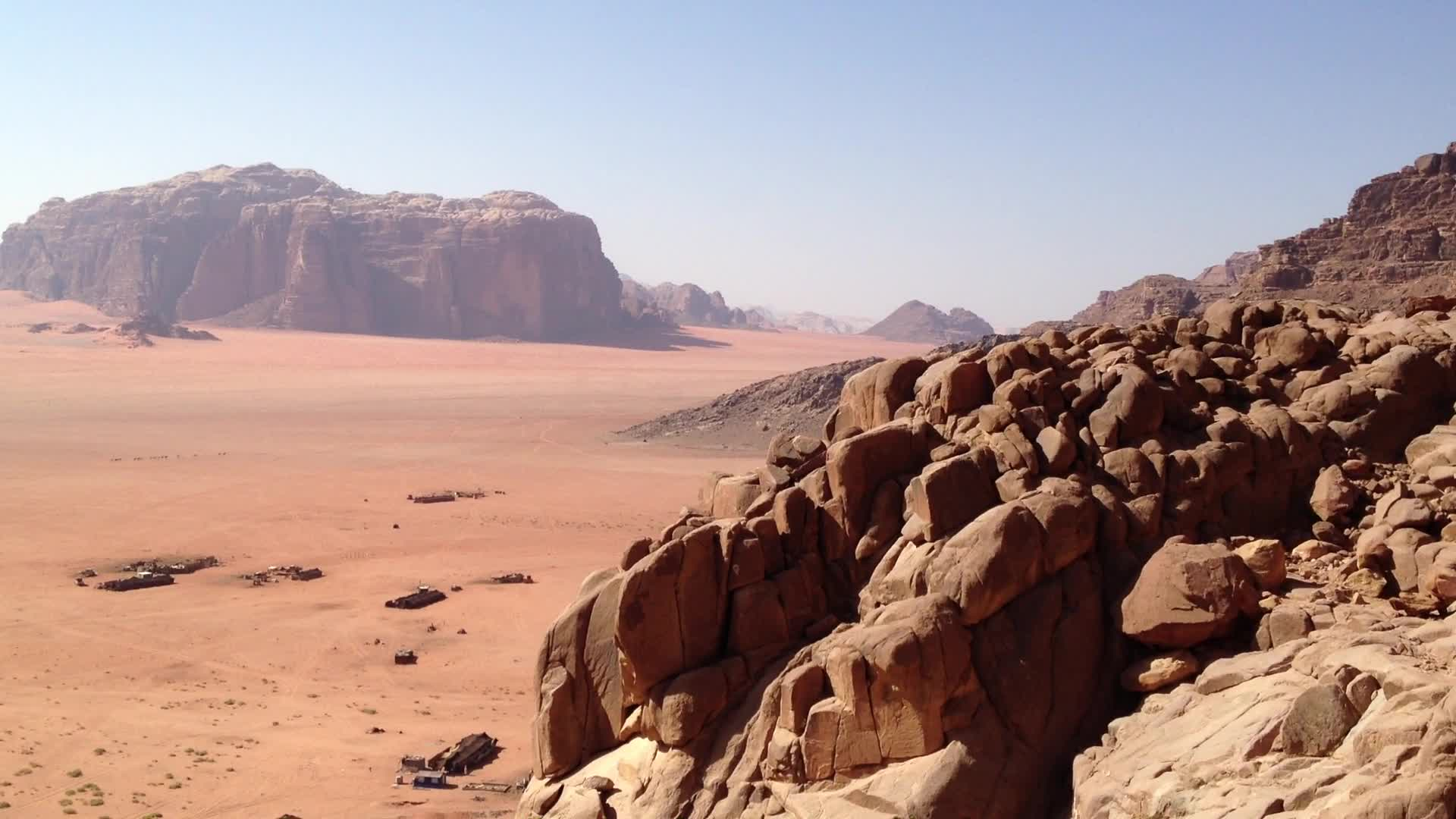 Wadi Rum also known as The Valley of the Moon is a valley cut into the sandstone and granite rock in southern Jordan 60 km (37 mi) to the east of Aqaba; it is the largest wadi in Jordan. The name Rum most likely comes from an Aramaic root meaning 'high' or 'elevated'. To reflect its proper Arabic pronunciation, archaeologists transcribe it as Wadi Ramm History Wadi Rum has been inhabited by many human cultures since prehistoric times, with many cultures–including the Nabateans–leaving their mark in the form of rock paintings, graffiti, and temples. In the West, Wadi Rum may be best known for its connection with British officer T. E. Lawrence, who passed through several times during the Arab Revolt of 1917–18. In the 1980s one of the rock formations in Wadi Rum was named "The Seven Pillars of Wisdom" after Lawrence's book penned in the aftermath of the war, though the 'Seven Pillars' referred to in the book have no connection with Rum. Geography The area is centered on the main valley of Wadi Rum. The highest elevation Jordan is Mount Um Dami at 1,840 m (6,040 ft) high, located 30 kilometers to the south of Wadi Rum village. It was first located by Difallah Ateeg, a Zalabia Bedouin from Rum. On a clear day, it is possible to see the Red Sea and the Saudi border from the top. Jabal Rum (1,734 metres (5,689 ft) above sea level) is the second highest peak in Jordan and the highest peak in the central Rum, rising directly above Rum valley opposite Jebel um Ishrin, which is possibly one metre lower. Khaz'ali Canyon in Wadi Rum is the site of petroglyphs etched into the cave walls depicting humans and antelopes dating back to the Thamudic times. The village of Wadi Rum itself consists of several hundred Bedouin inhabitants with their goat-hair tents and concrete houses and also their four wheel vehicles, one school for boys and one for girls, a few shops, and the headquarters of the Desert Patrol.